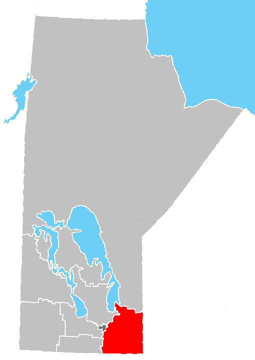 made it myself using an outline